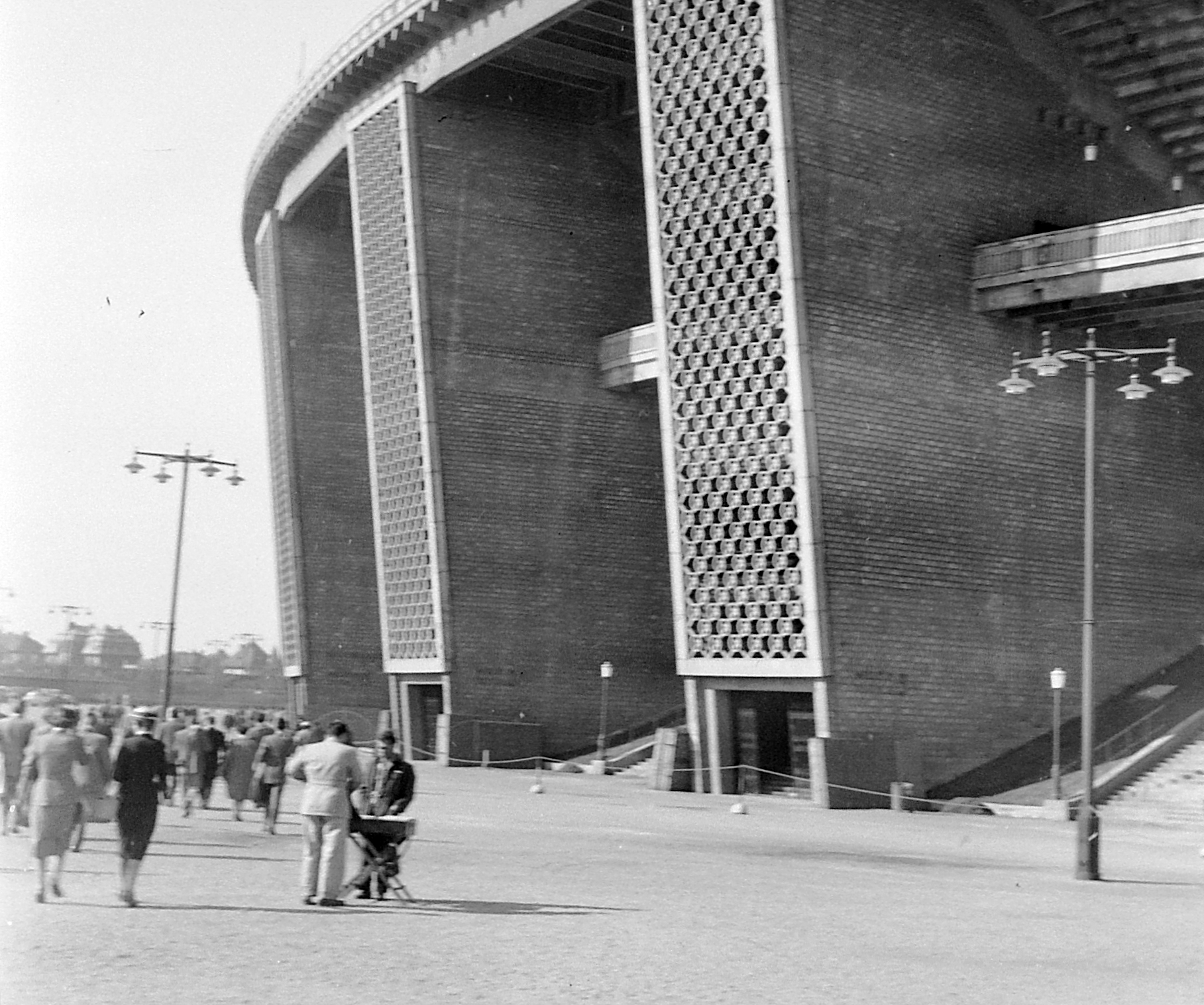 Location: Hungary, Budapest XIV., Népstadion Tags: Budapest, lamp post